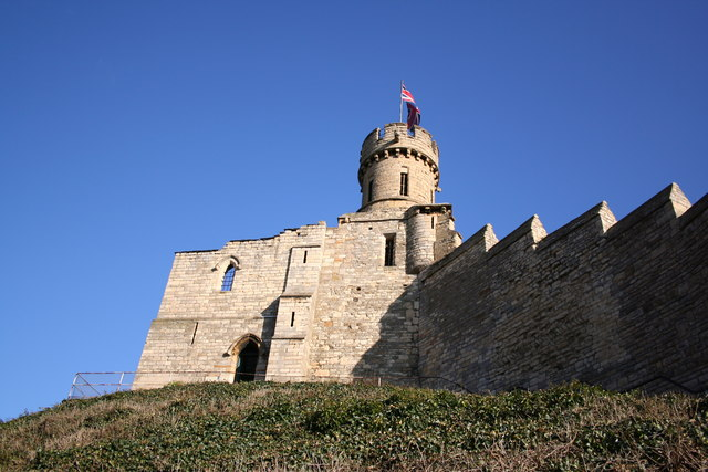 Observatory Tower. On the south eastern side of the castle bailey, the Observatory Tower stands on a mound about 40 feet high. The lower part is Norman with a 14th century addition, but the circular turret was added in the 19th century for a governor of the gaol who indulged his interest in astronomy - hence the name 'Observatory Tower'.